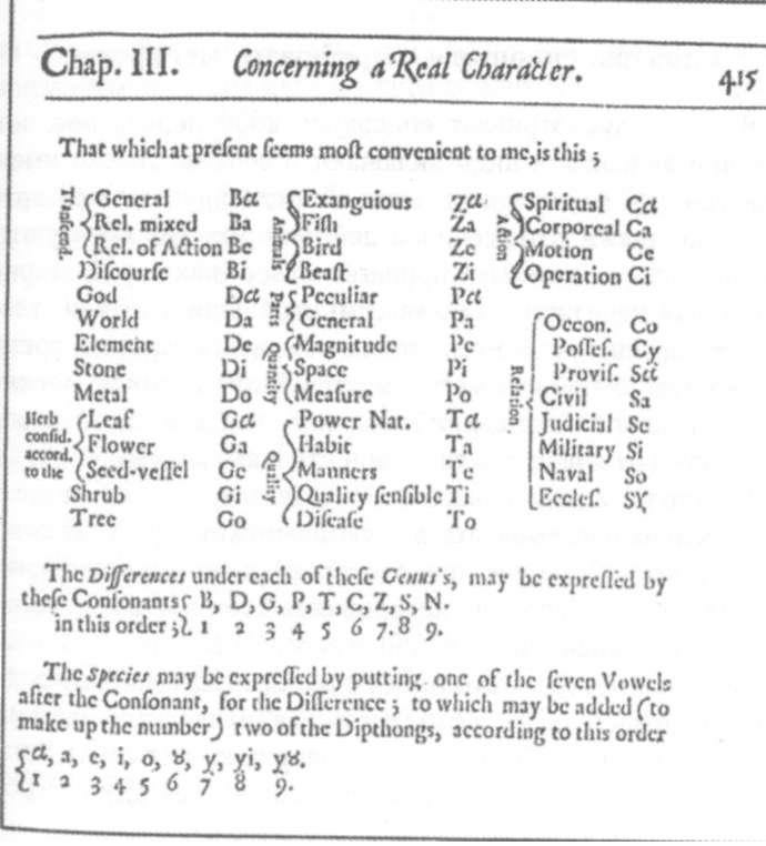 Sample of the constructed language ("real character") of John Wilkins from An Essay towards a Real Character and a Philosophical Language (1668).